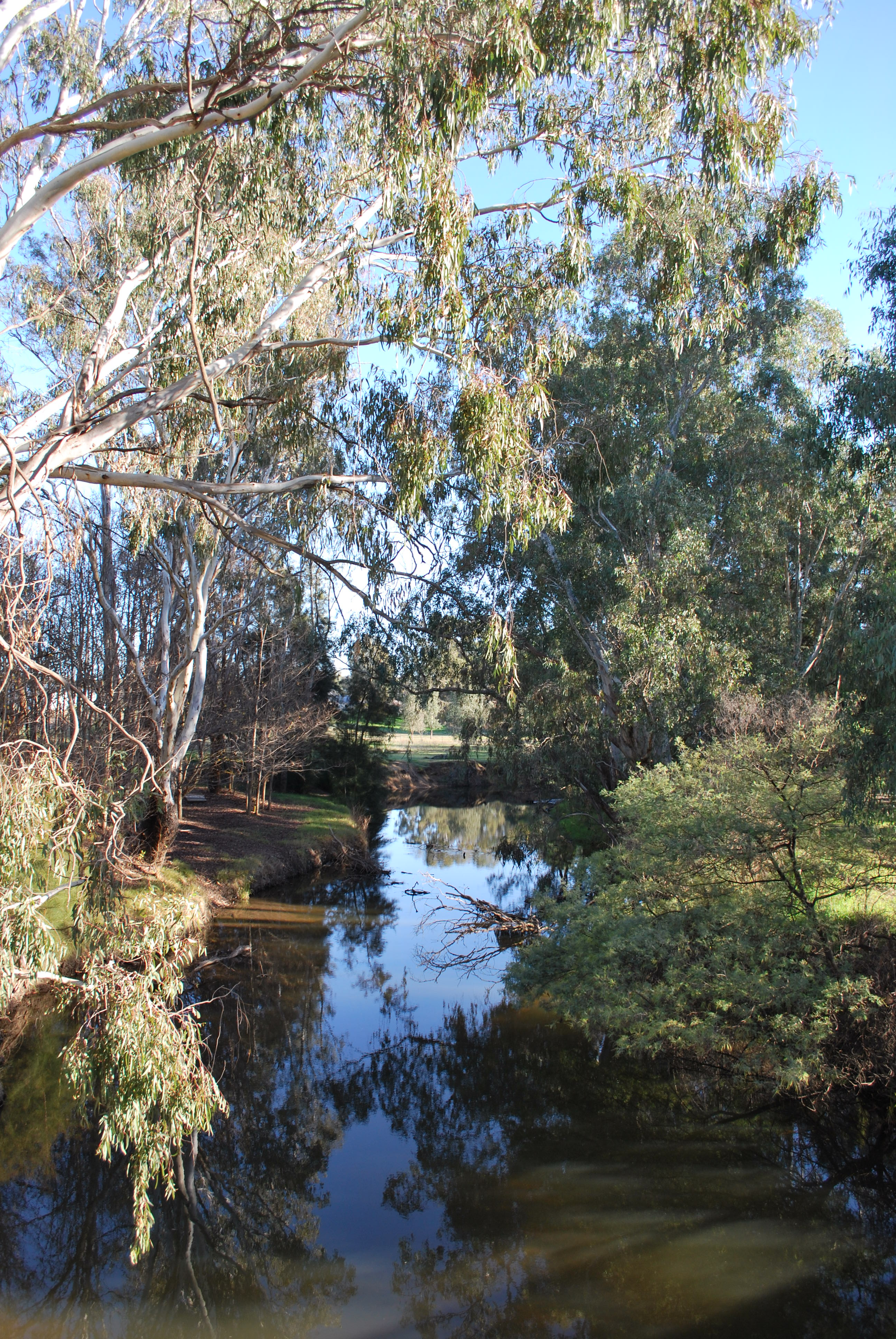 King River (Victoria) at Oxley, Victoria